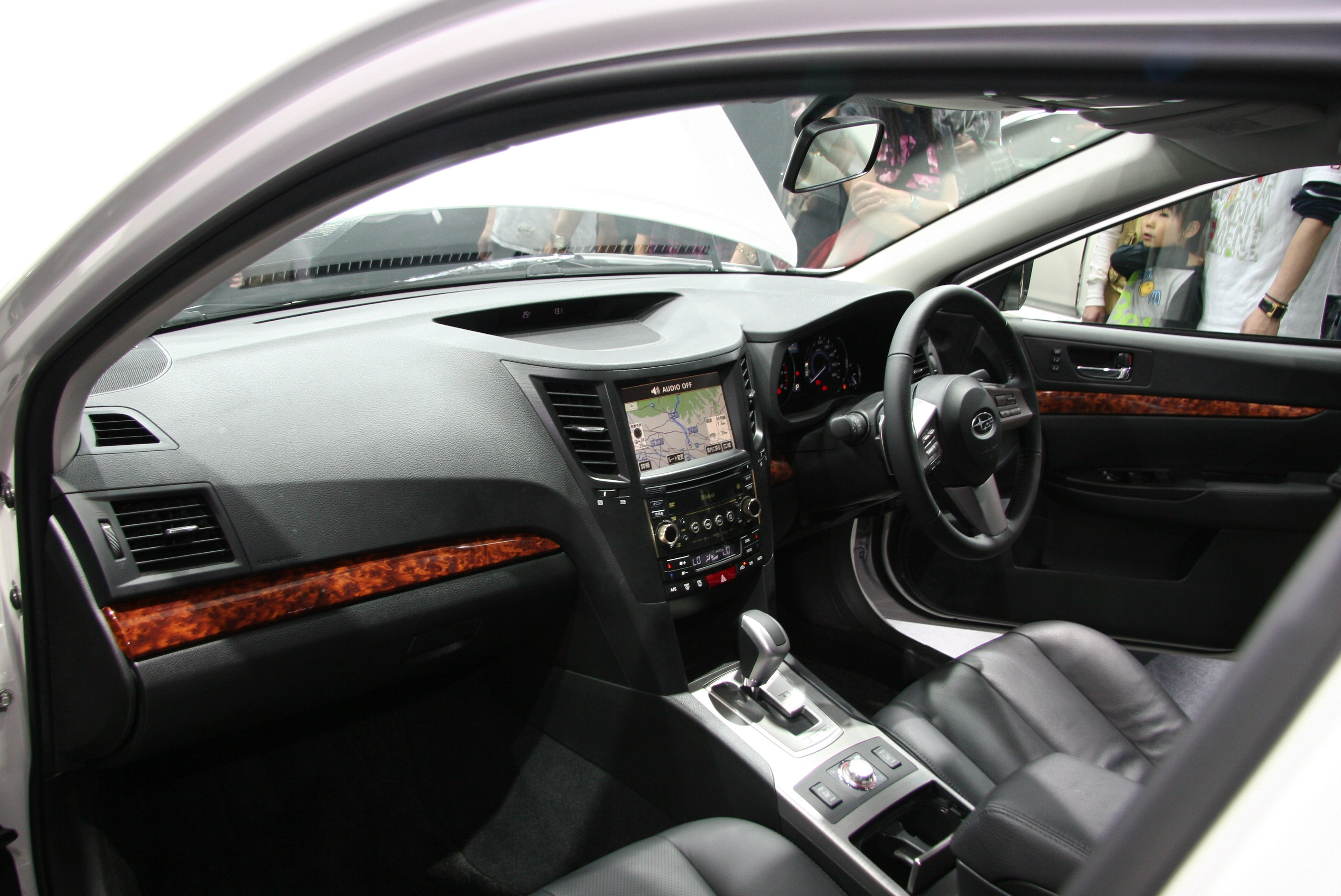 Subaru Legacy B4